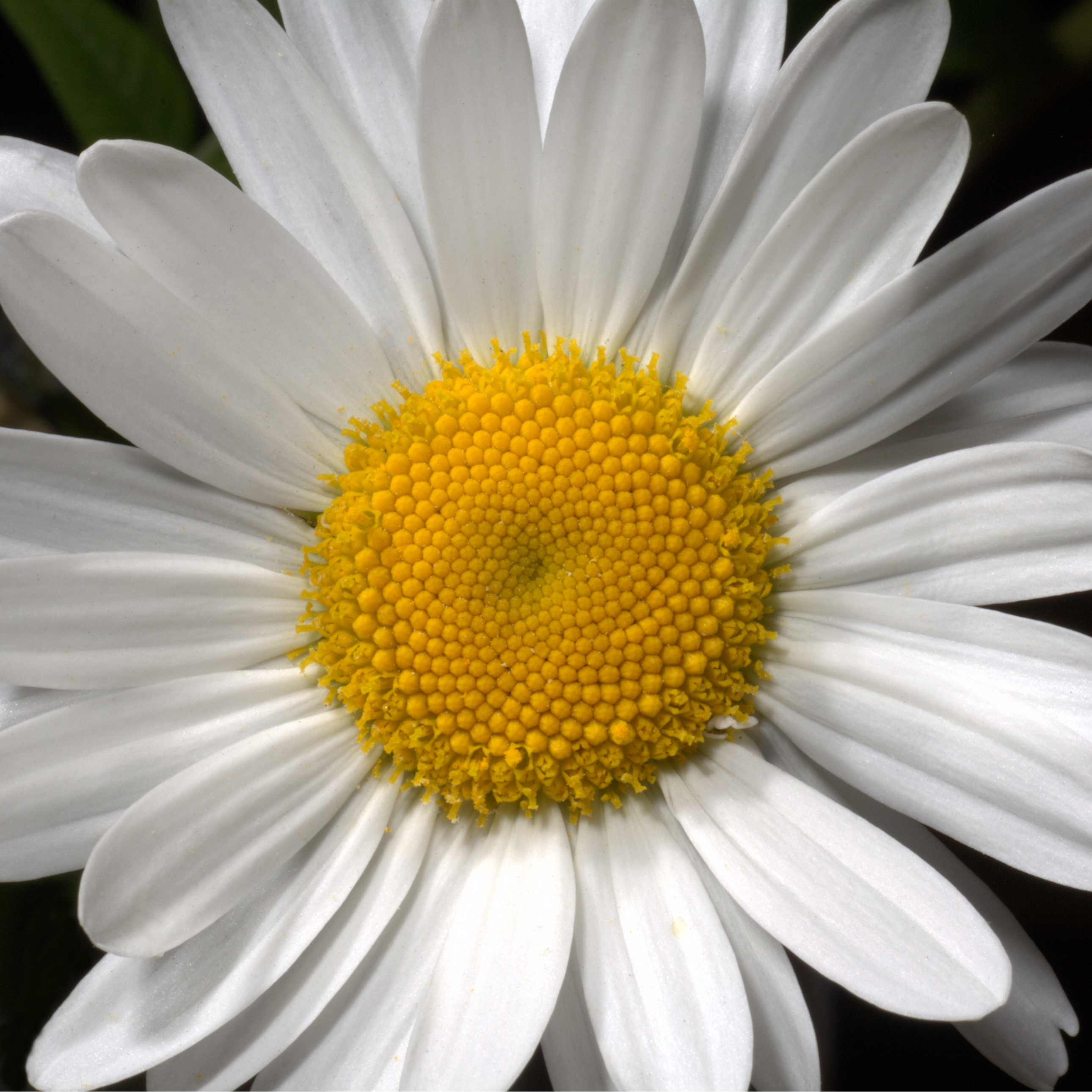 Leucanthemum vulgare